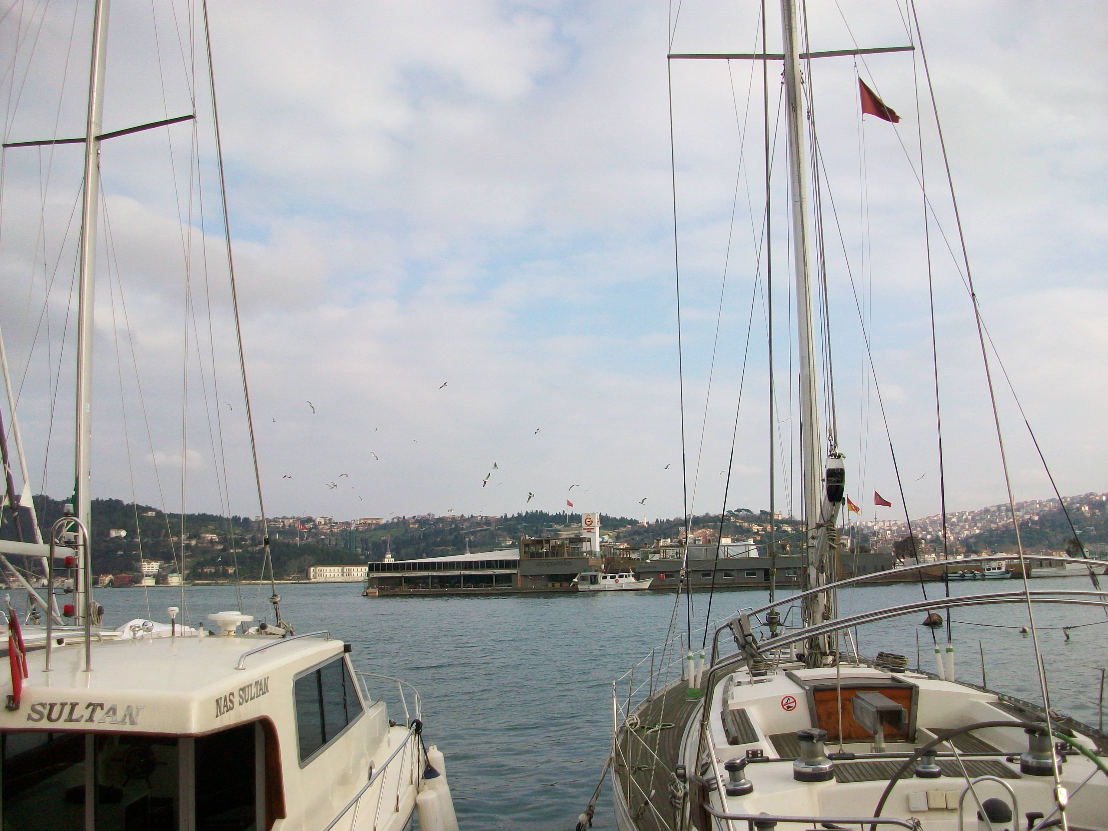 Su Island.